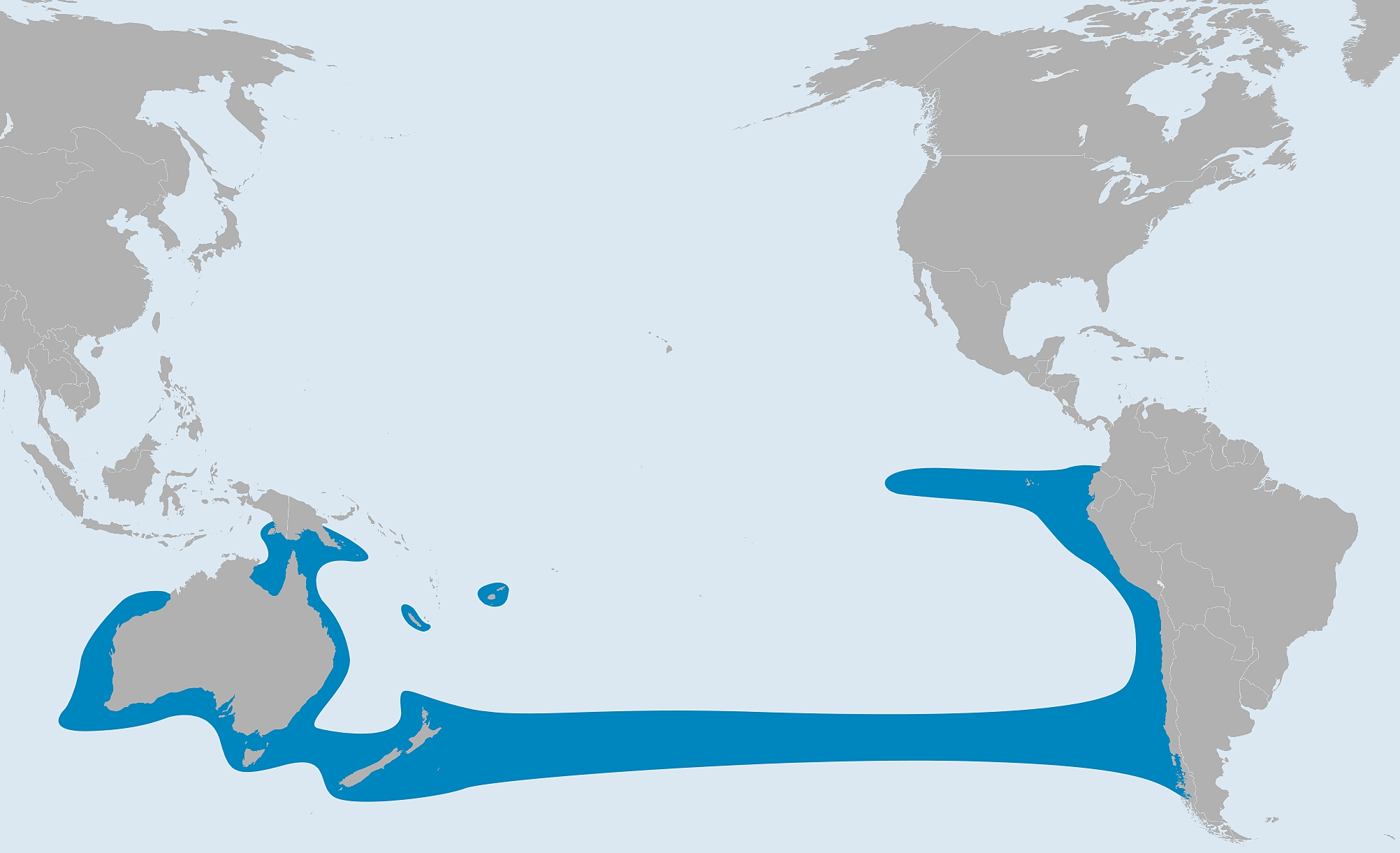 Estimated distribution of the Chilean jack mackerel (Trachurus murphyi)